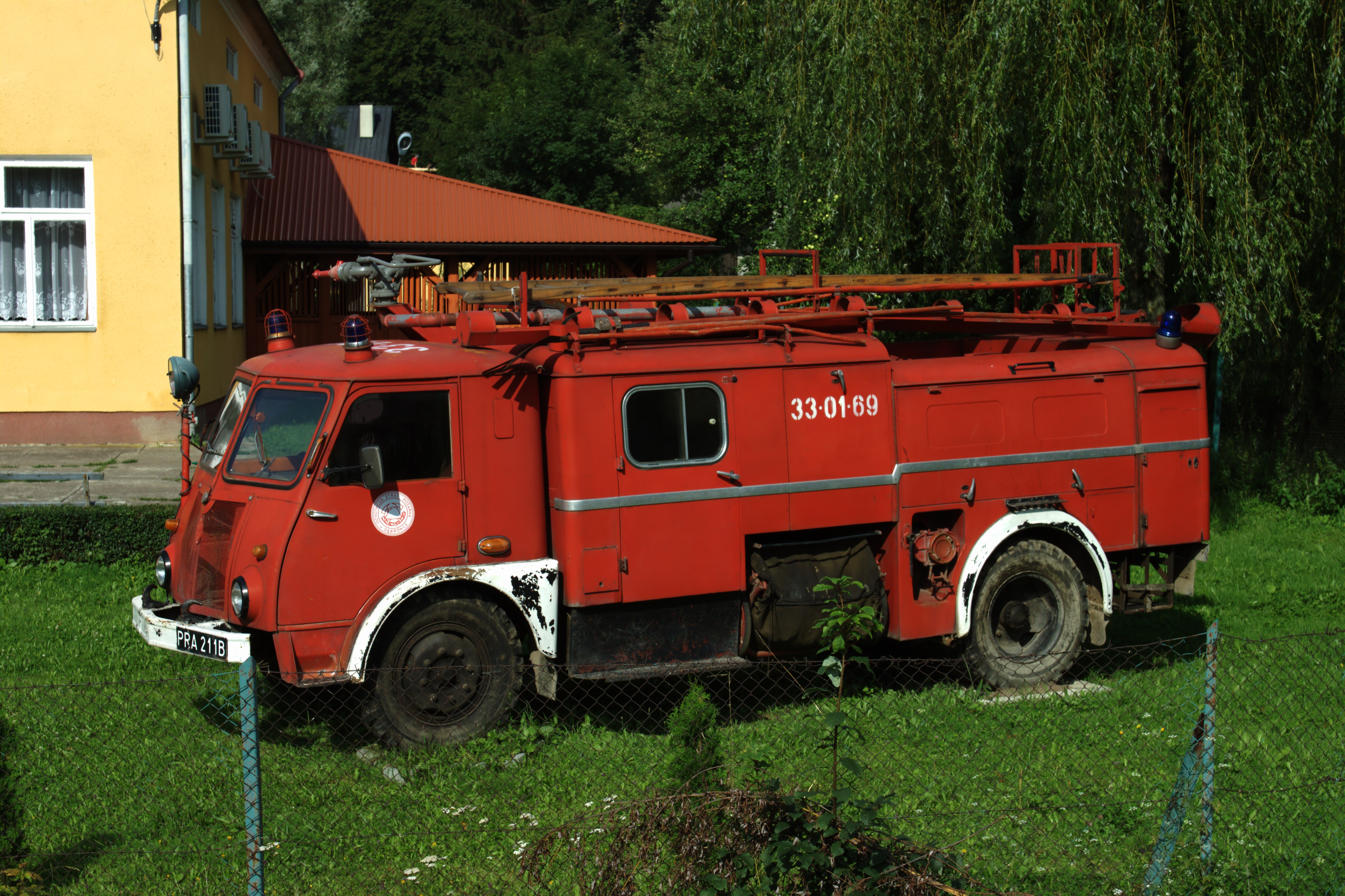 A fire engine in Dąbrówka Starzeńska, Podkarpackie voivodeship, Poland This photo of Subcarpathian Voivodeship was taken during Wikiekspedycja 2011 set up by Wikimedia Polska Association.You can see all photographs in category Wikiekspedycja 2011. The making of this document was supported by Wikimedia Polska.